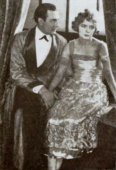 Still from the American comedy film A Stitch in Time (1919) with Gladys Leslie and an unidentified actor, on page 41 of the May 24, 1919 Exhibitors Herald.